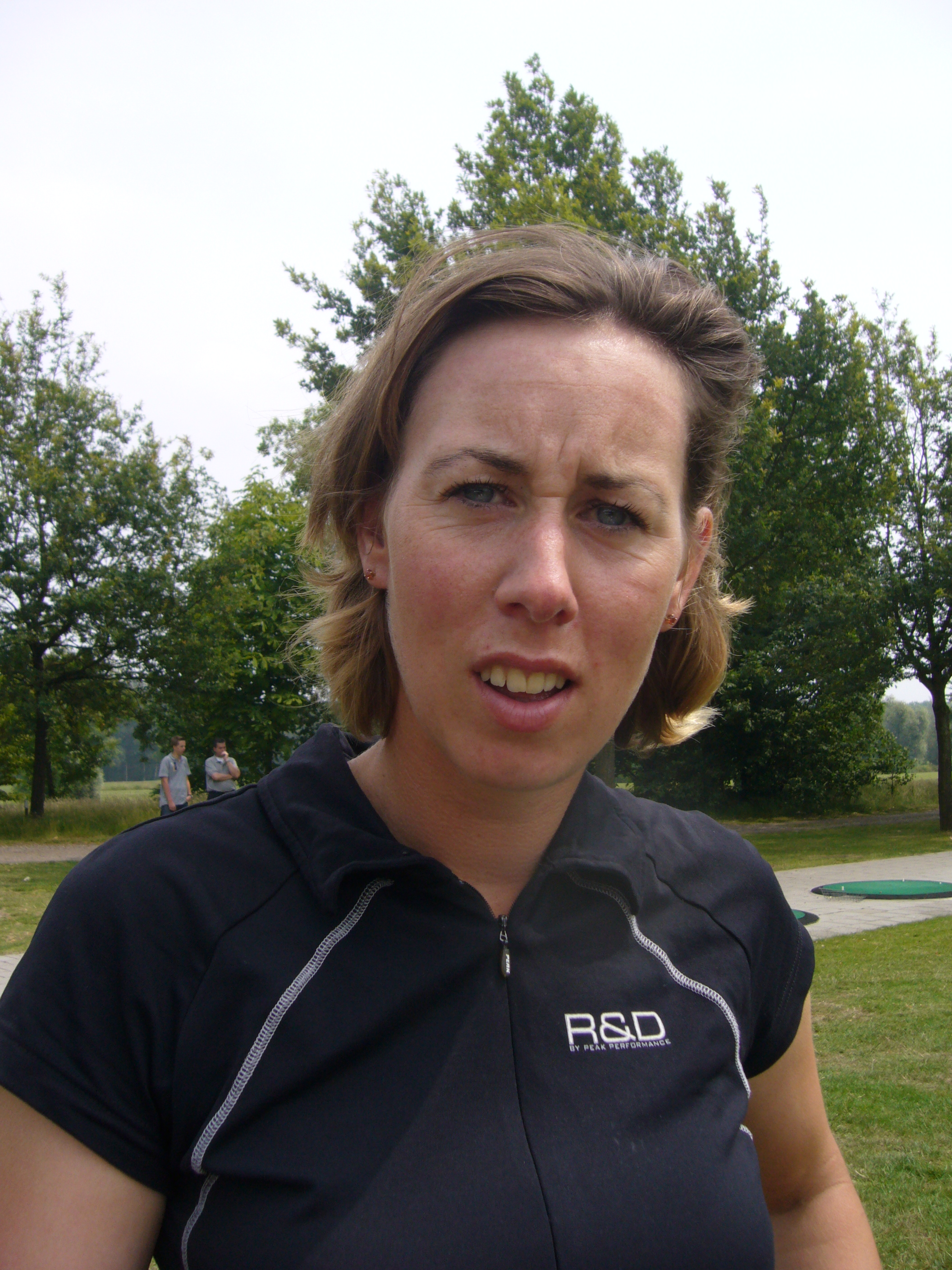 Annemieke de Goederen, Dutch golfprofessional